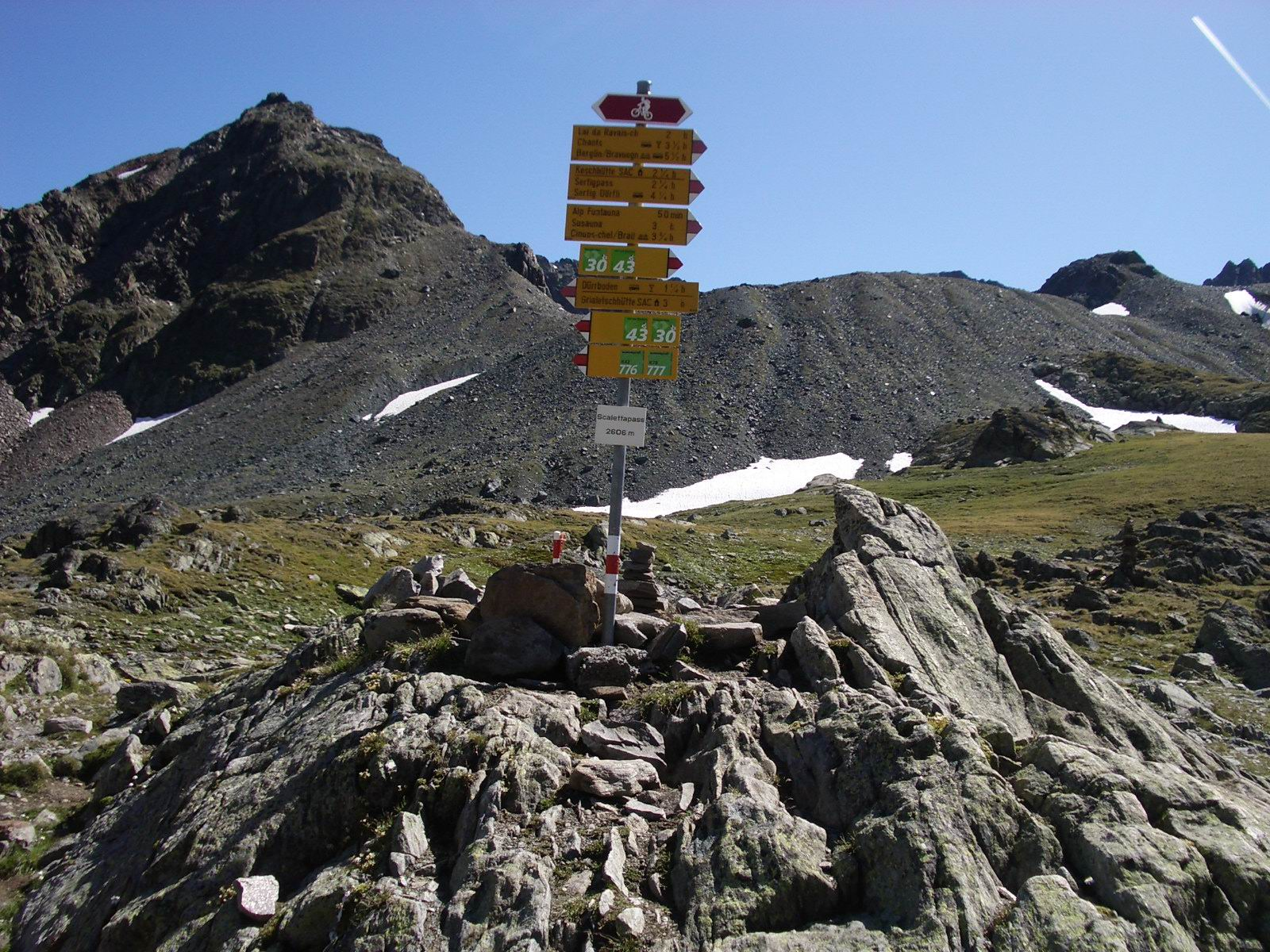 Scaletta pass, Grisons, Switzerland